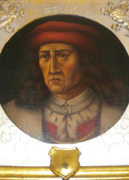 Oil portrait of King Eric the Pomeranian of Scandinavia in Darłowo Castle, as released by image creator Ristesson. Place: Darłowo, Poland